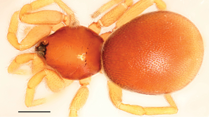 Xestaspis shoushanensis, female, dorsal view. Scale bar: 0.4 mm